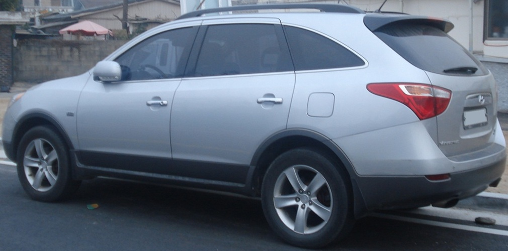 Hyundai Veracruz